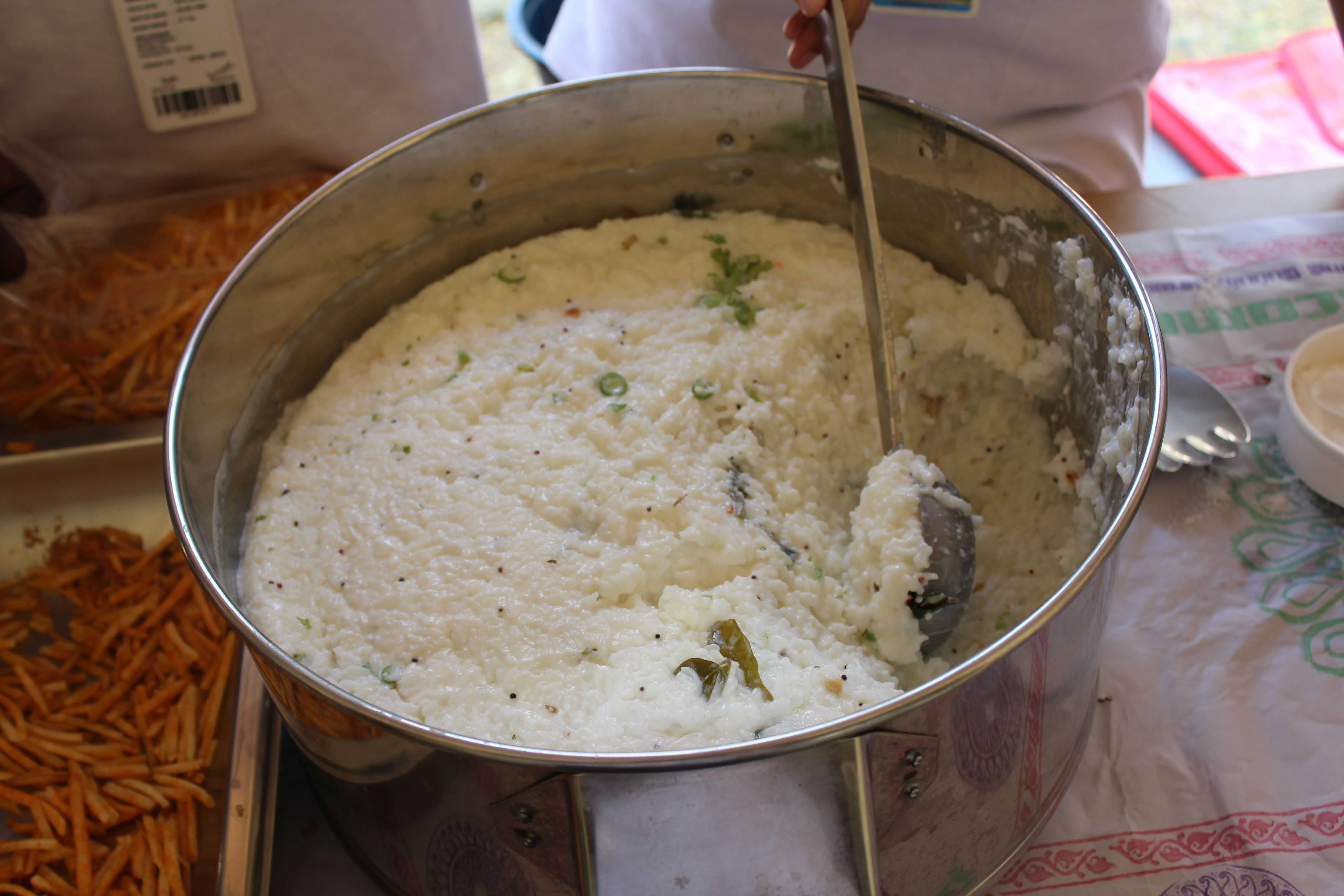 Curd Rice a part of the staple diet of South India especially Tamil Nadu